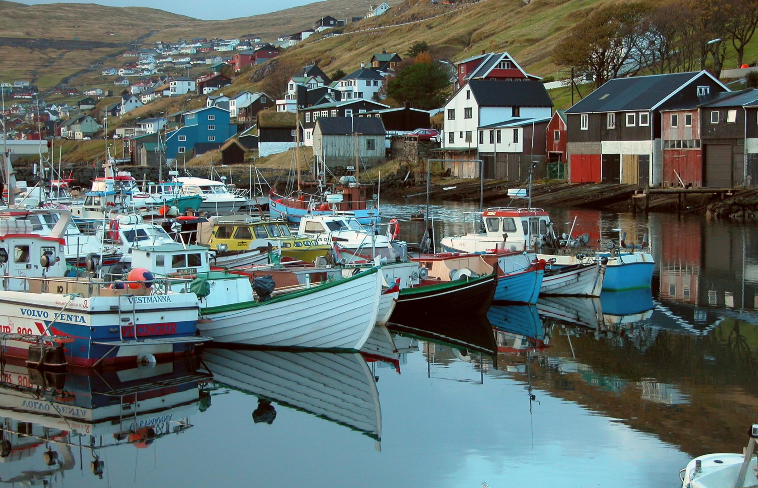 Faroe boats of Vestmanna on Streymoy, Faroe Islands